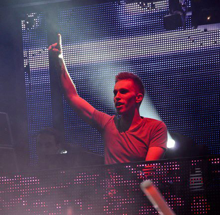 NR Live